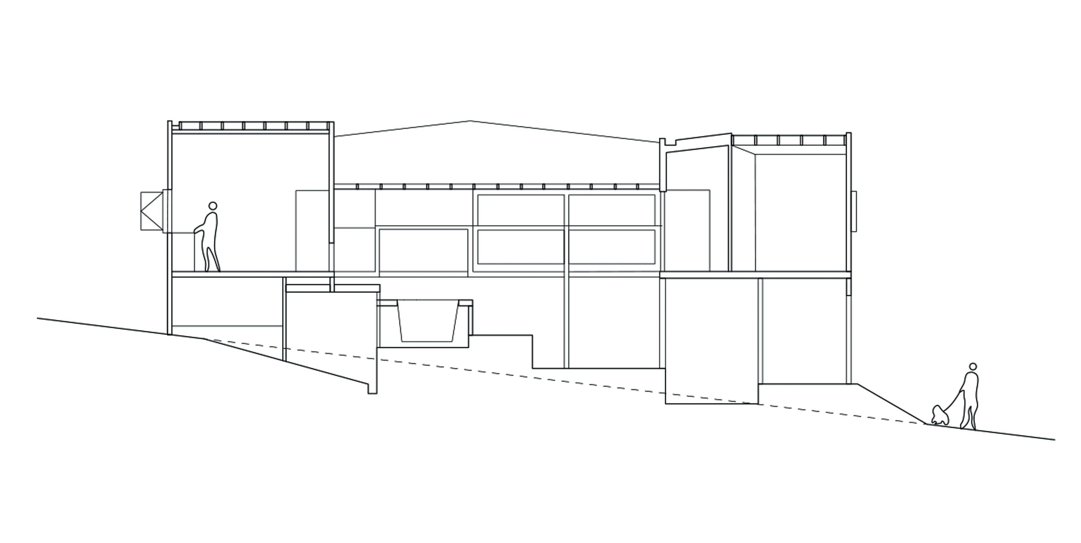 This is a section drawing of ivanhoe house